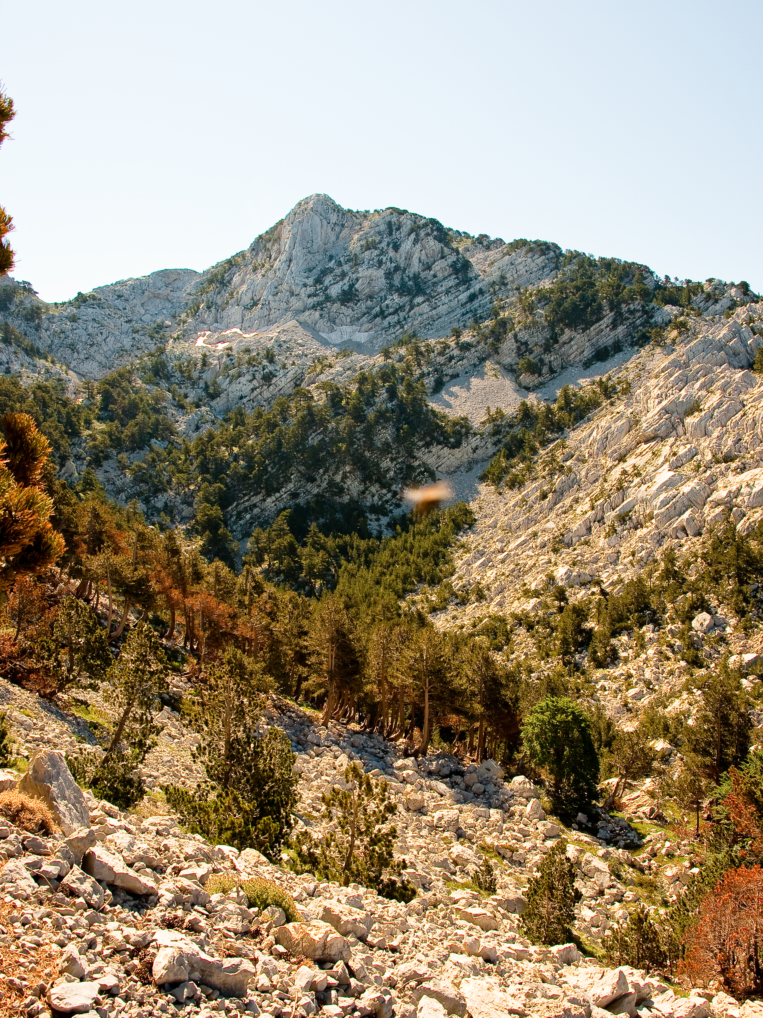 View of Zubacki kabao